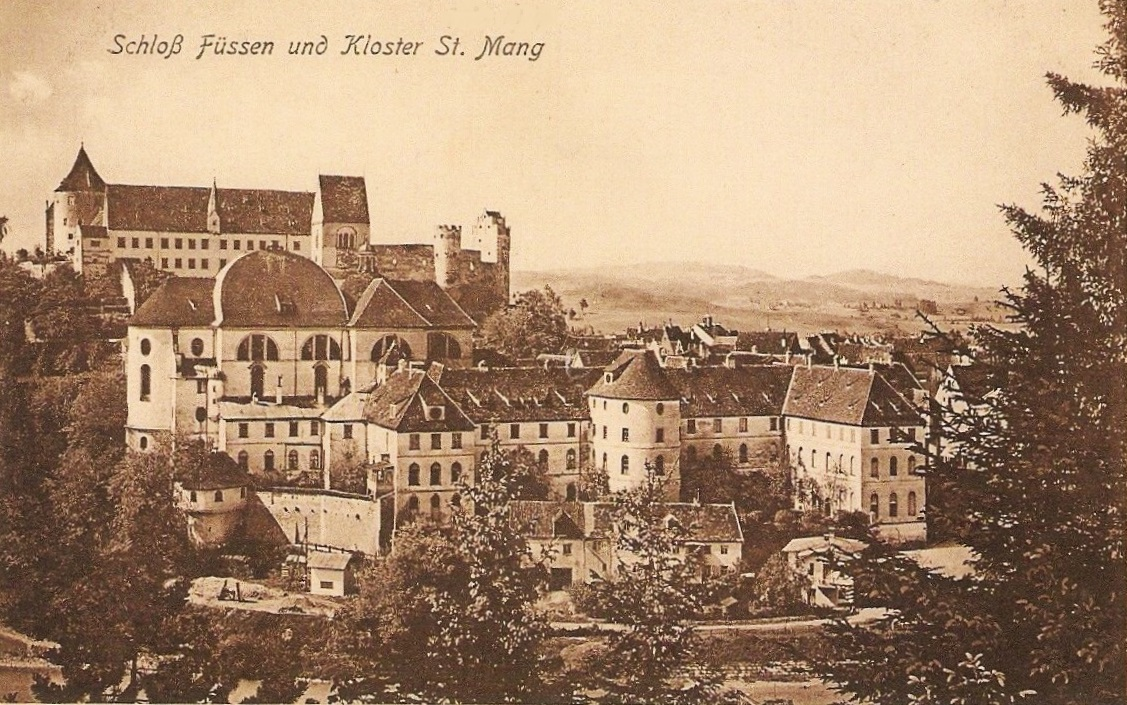 In the forefront, view of St. Mang's Abbey and, in the background, Hohes Schloss Füssen (High Castle Füssen), the former summer palace of the prince-bishop of Augsburg at Füssen. The original medieval palace is visible to the right of the palace. Postcard from the 1910s.